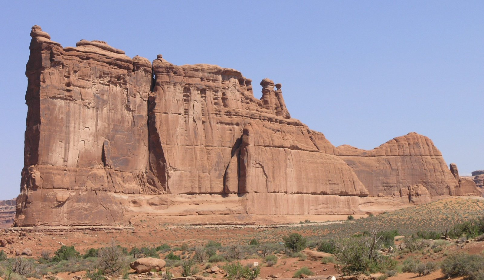 Photo taken by Daniel Mayer in late June 2005.